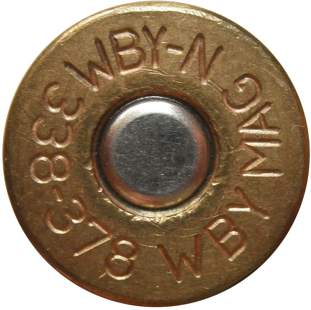 Taken 06/02/2019 by owner Joseph Adashunas.